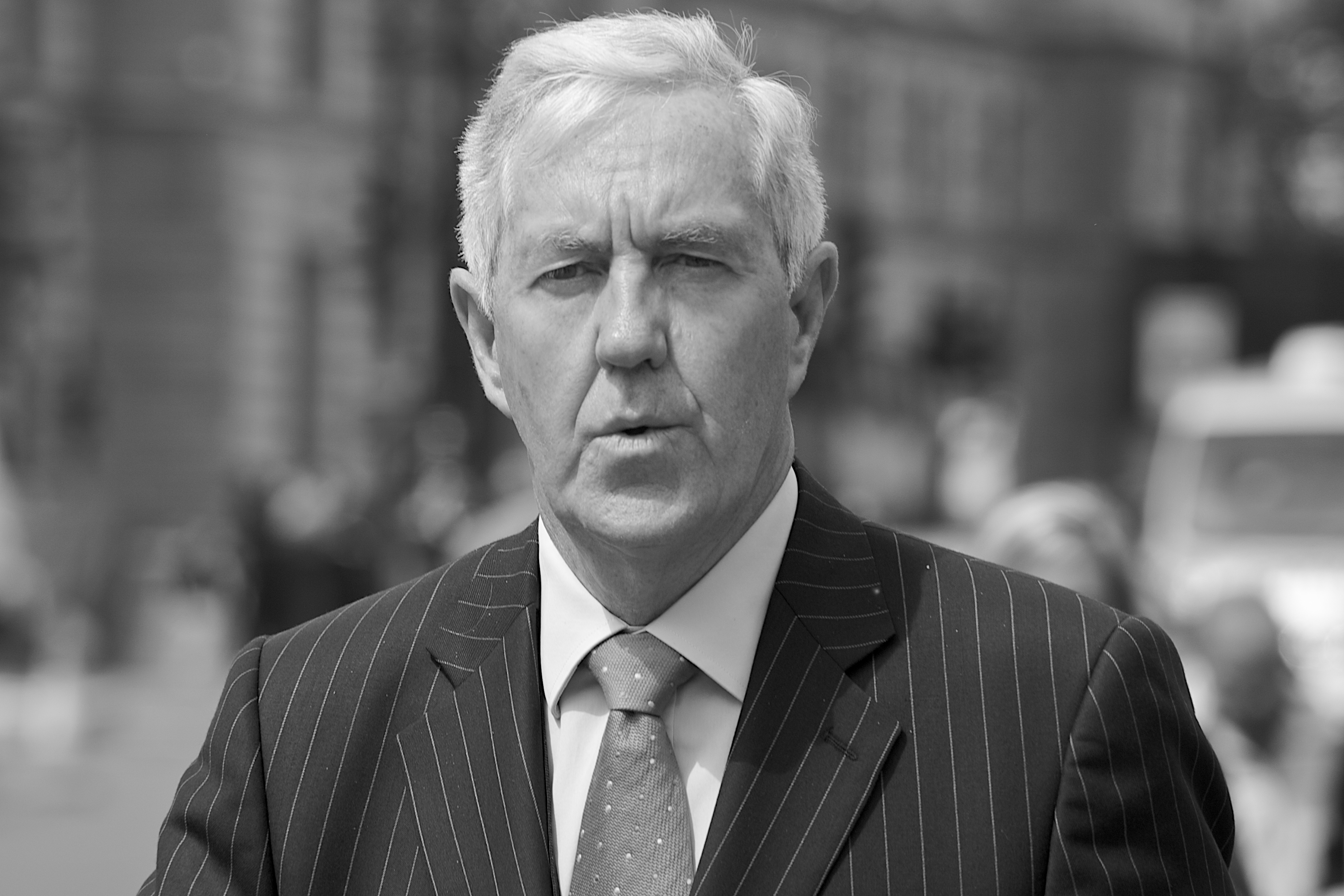 Paul Condon, Baron Condon, British policeman, on the day Michael Martin announced his resignation as Speaker of the British House of Commons.